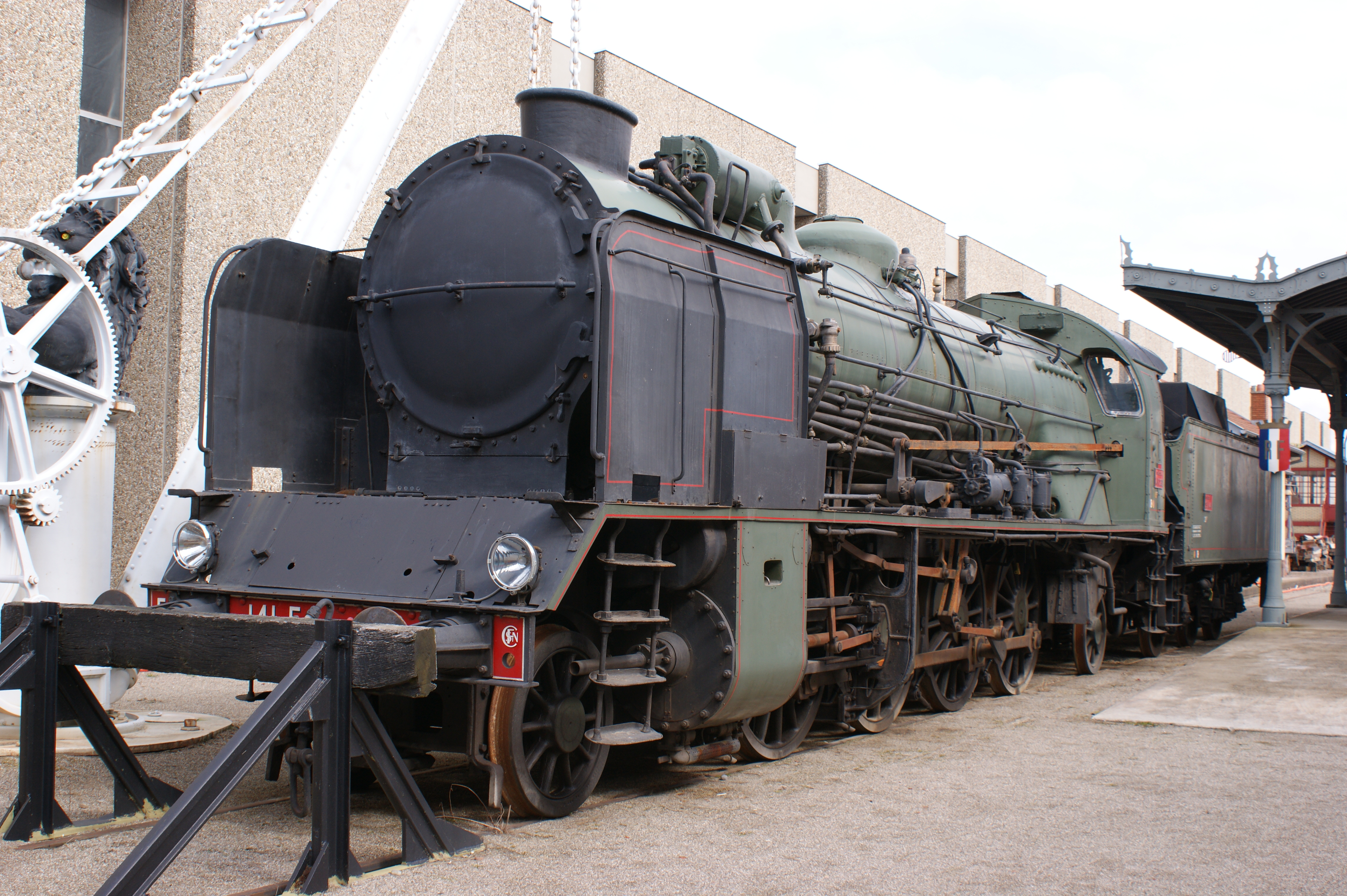 PLM 2-8-2 built as a 141C and rebuilt by Chapelon to 141F (SNCF 141F.282). Very efficient locos which formed the basis for the SNCF Standard 141Ps.3/09.